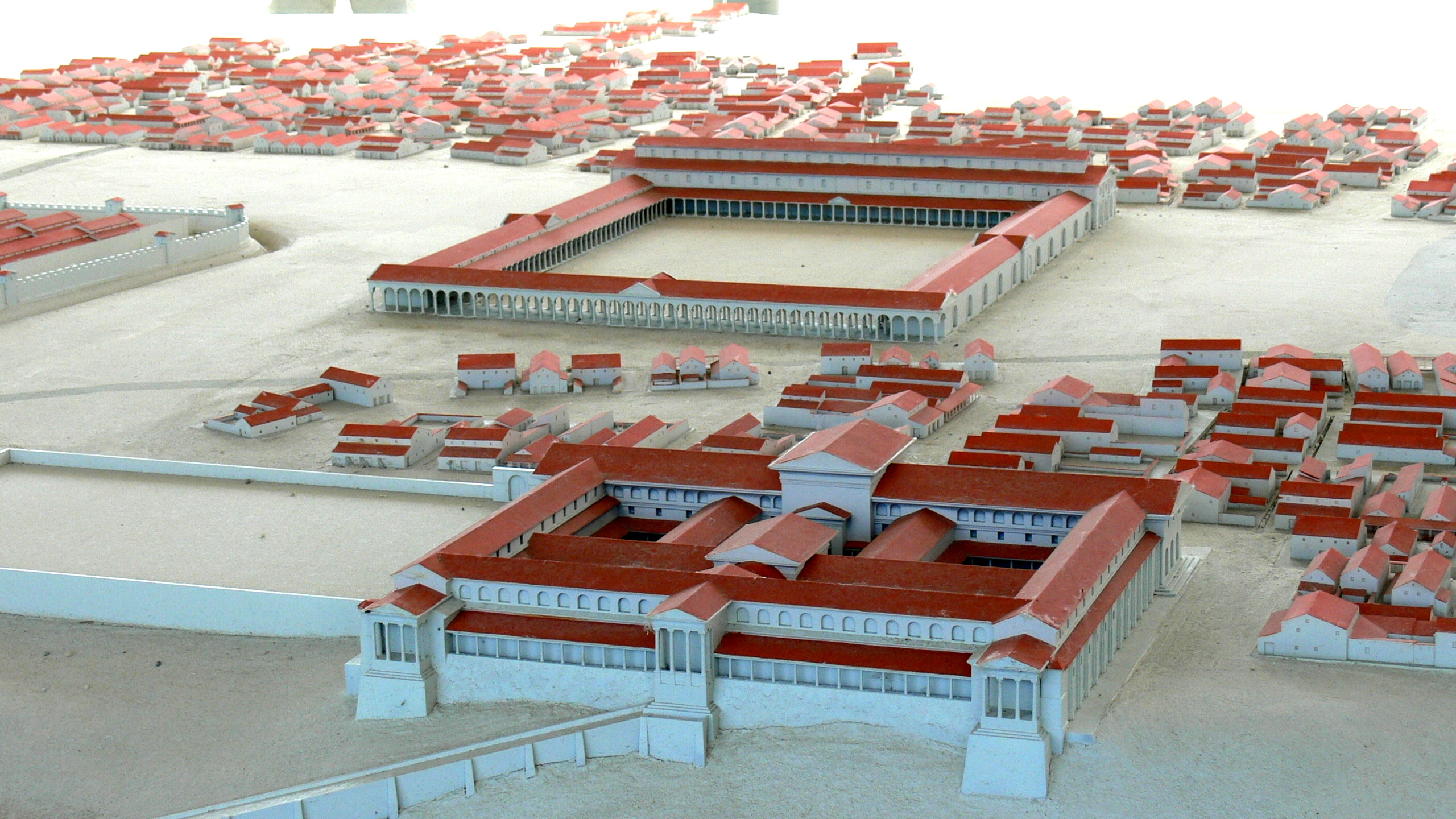 Petronell ( Lower Austria ).Open air museum: Model of Carnuntum ( 210 AD ) - Palace of the gouvernor.